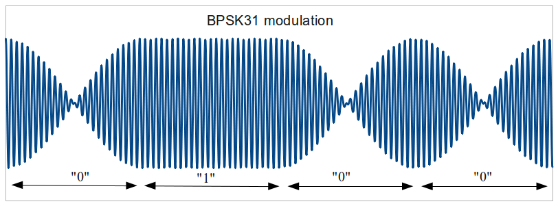 Carrier with binary phase shift keying encoding 4 data bits.